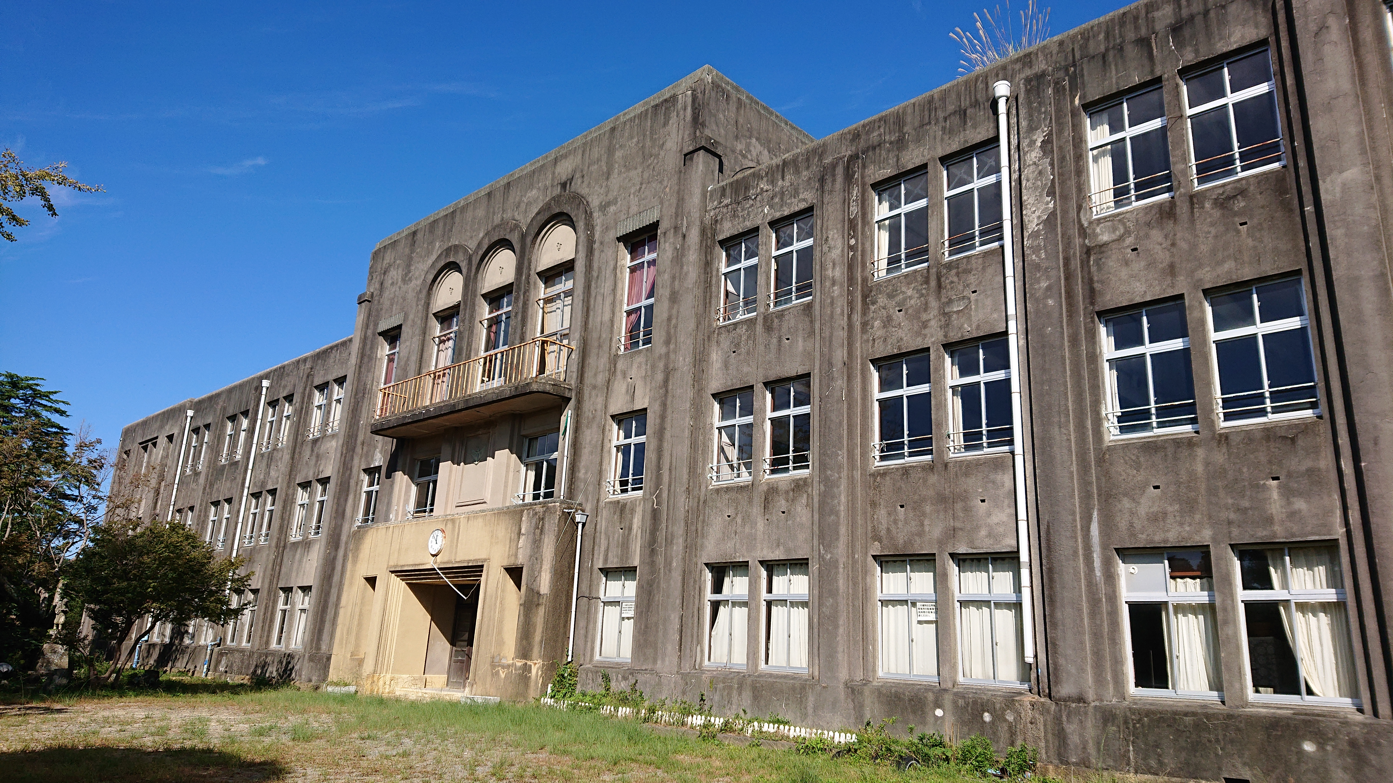 This is the Former Toba Elementary School Building in Toba, Mie, Japan.